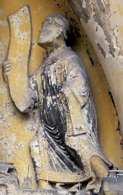 Poppo of Andechs-Meranien in Bamberg, Dom St. Peter und St. Georg